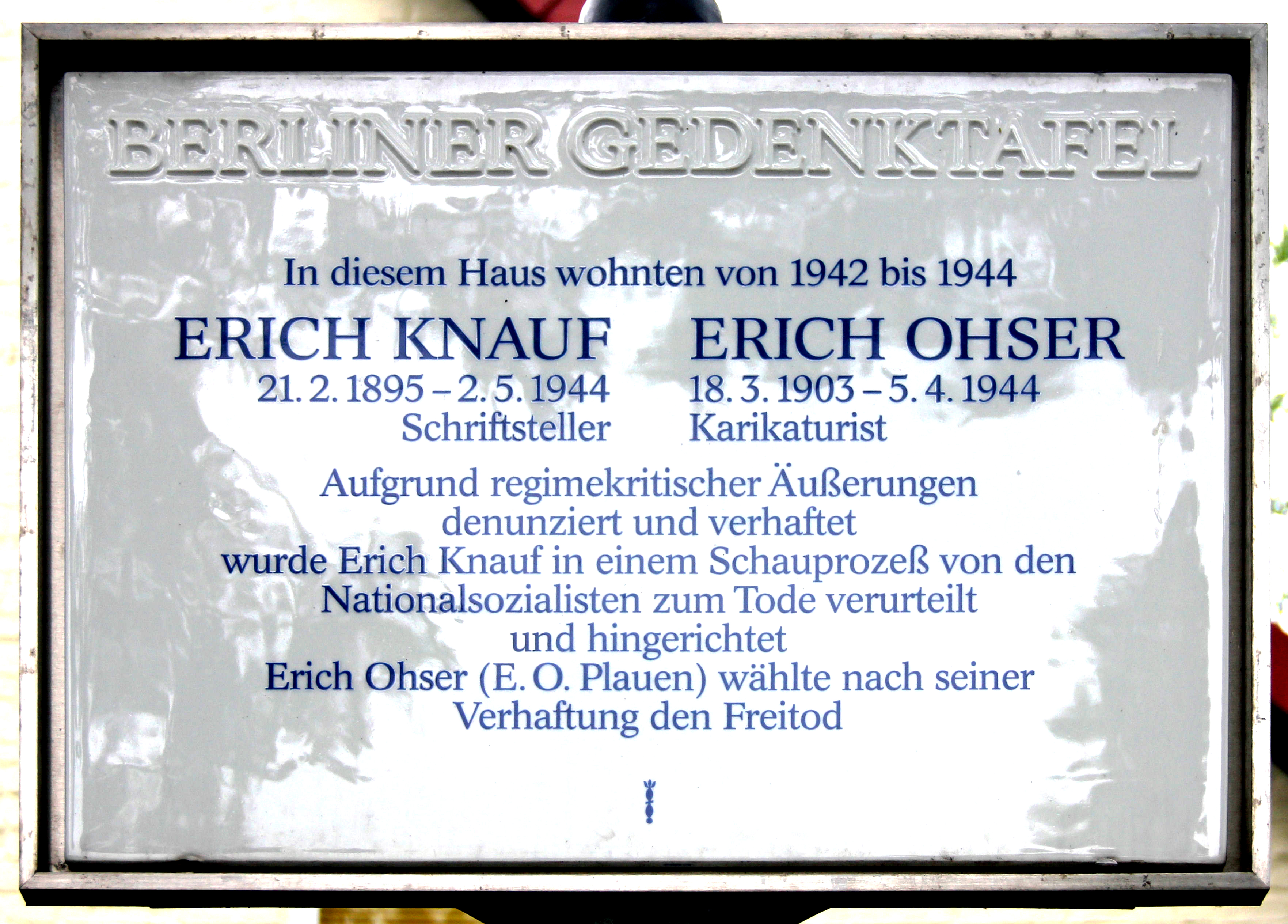 Berlin memorial plaque, Erich Knauf and Erich Ohser, Am Feldberg 3, Berlin-Kaulsdorf, Germany